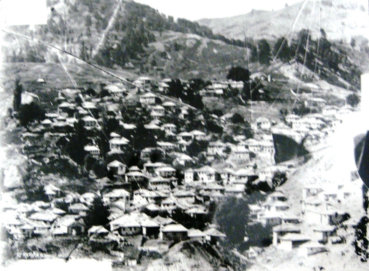 Panorama of the village Avdella. (1898) (Damaged glass plate) This media file is produced by Wikipedian in Residence in Category:Wikipedian in Residence at DARM in 2016.